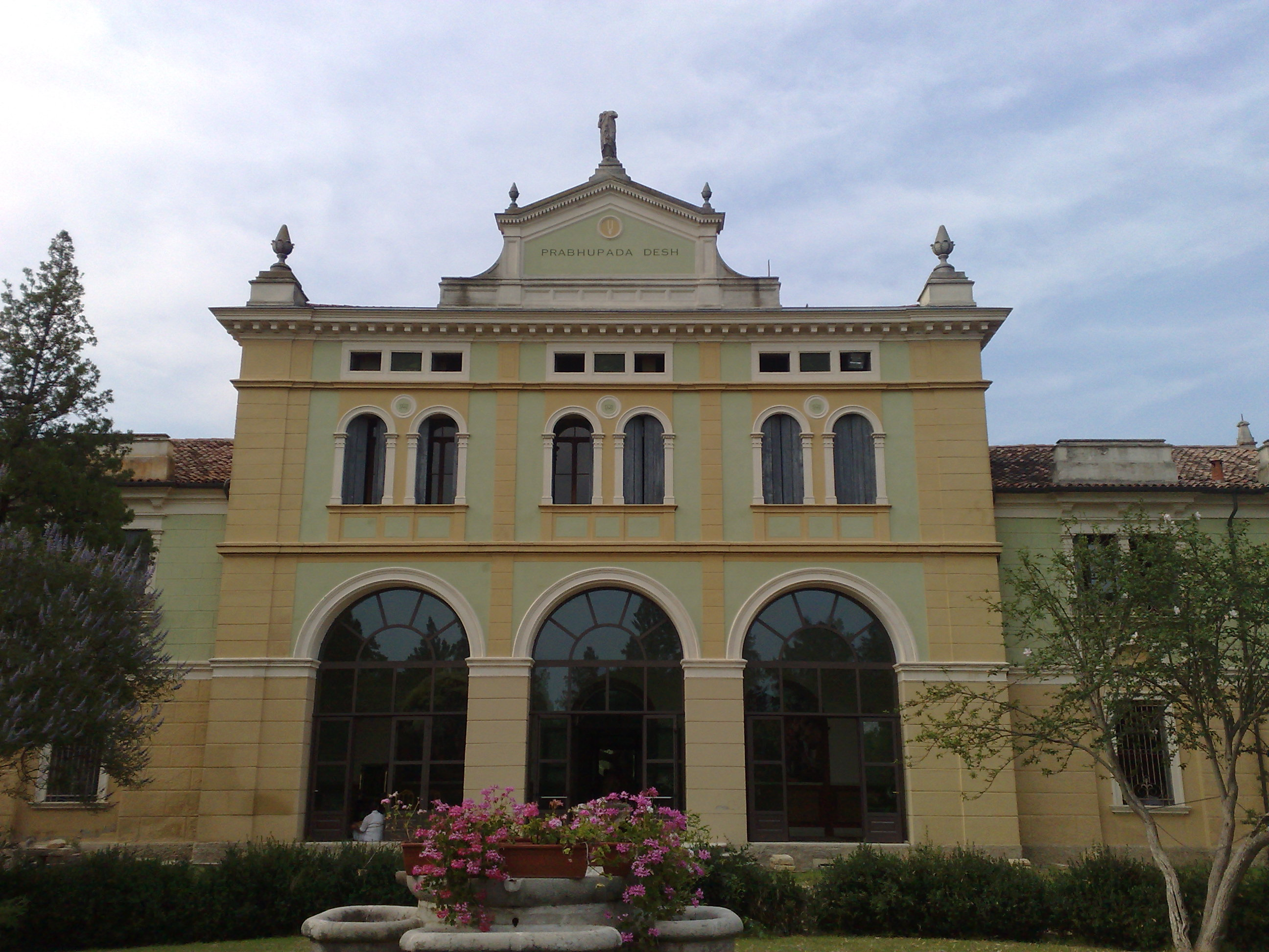 Prabhuapada desh, Hare Krishna temple in Albettone, Province of Vicenza.